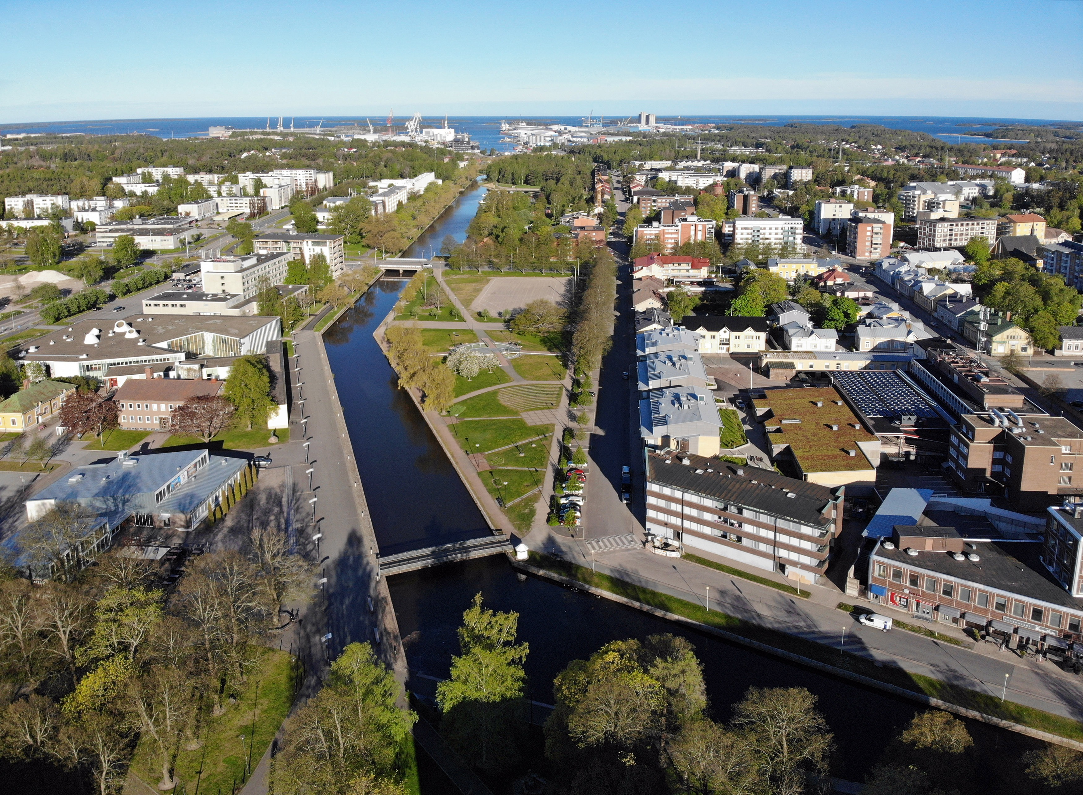 Rauma canal.